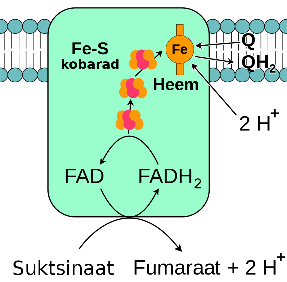 Schematic diagram of electron transport in complex II (succinate–coenzyme Q reductase, succinate dehydrogenase) of the mitochondrial electron transport chain.